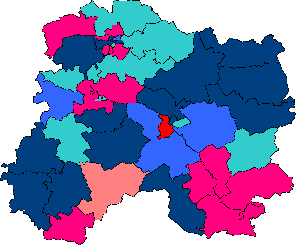 Cantons of Marne in 2001.